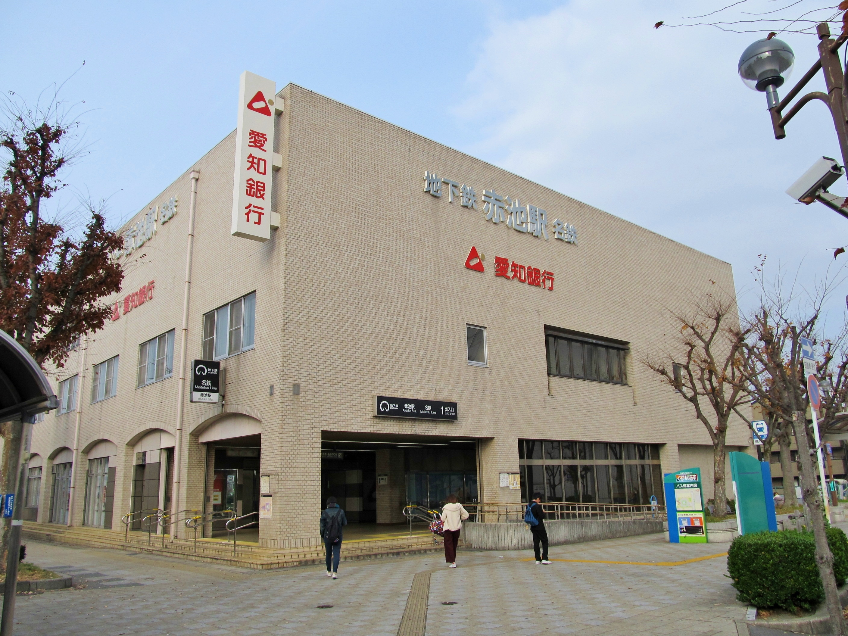 Transportation Bureau City of Nagoya, Nagoya Municipal Subway Tsurumai Line / Nagoya Railroad Toyota Line Akaike Station Building